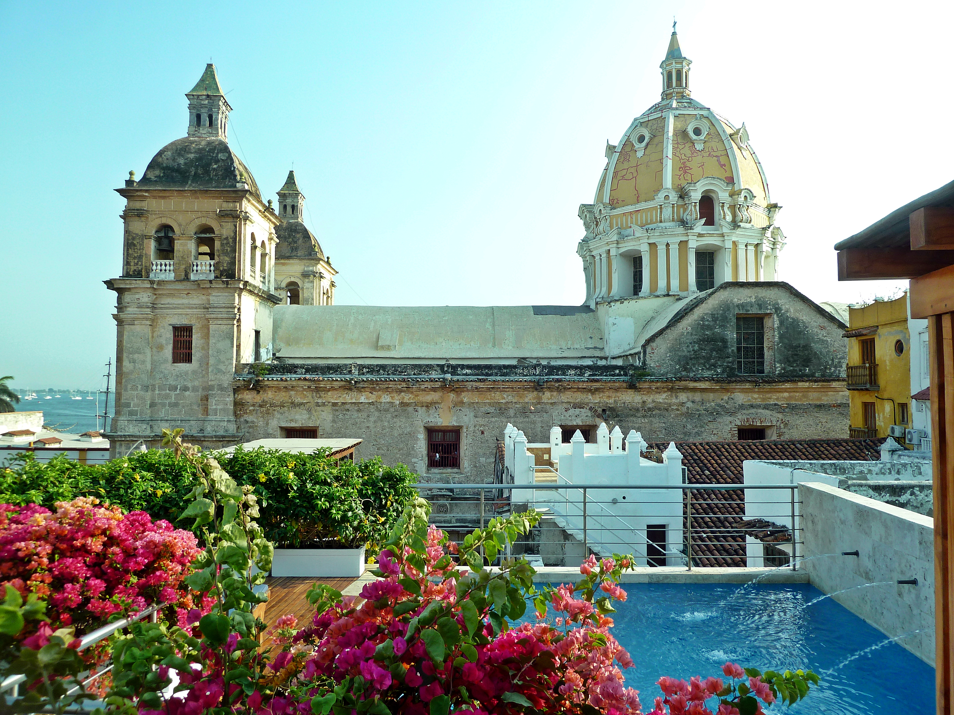 Iglesia de San Pedro Claver, Cartagena, Colombia.